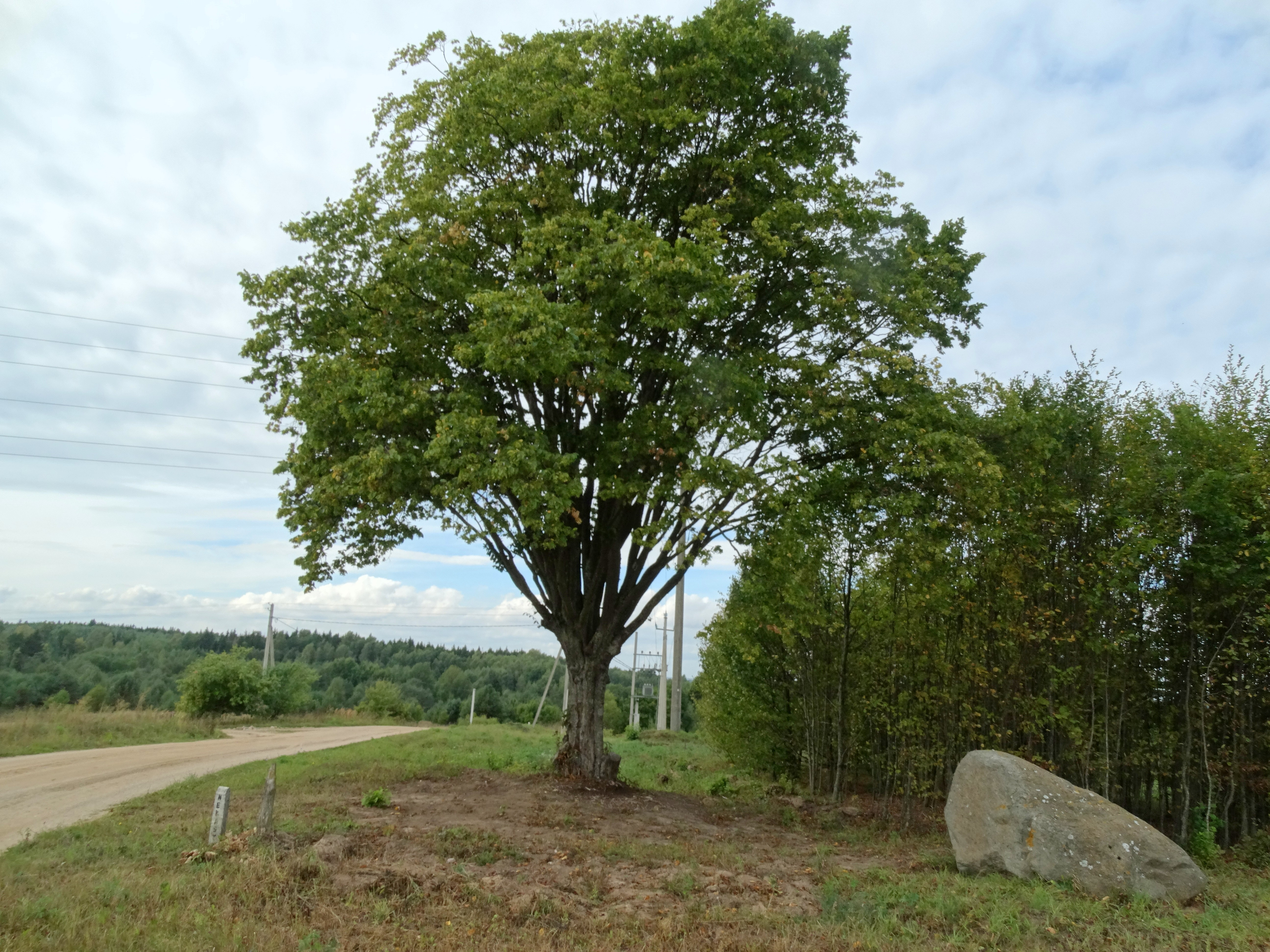 Saulučiai, Kaišiadorys district, Lithuania